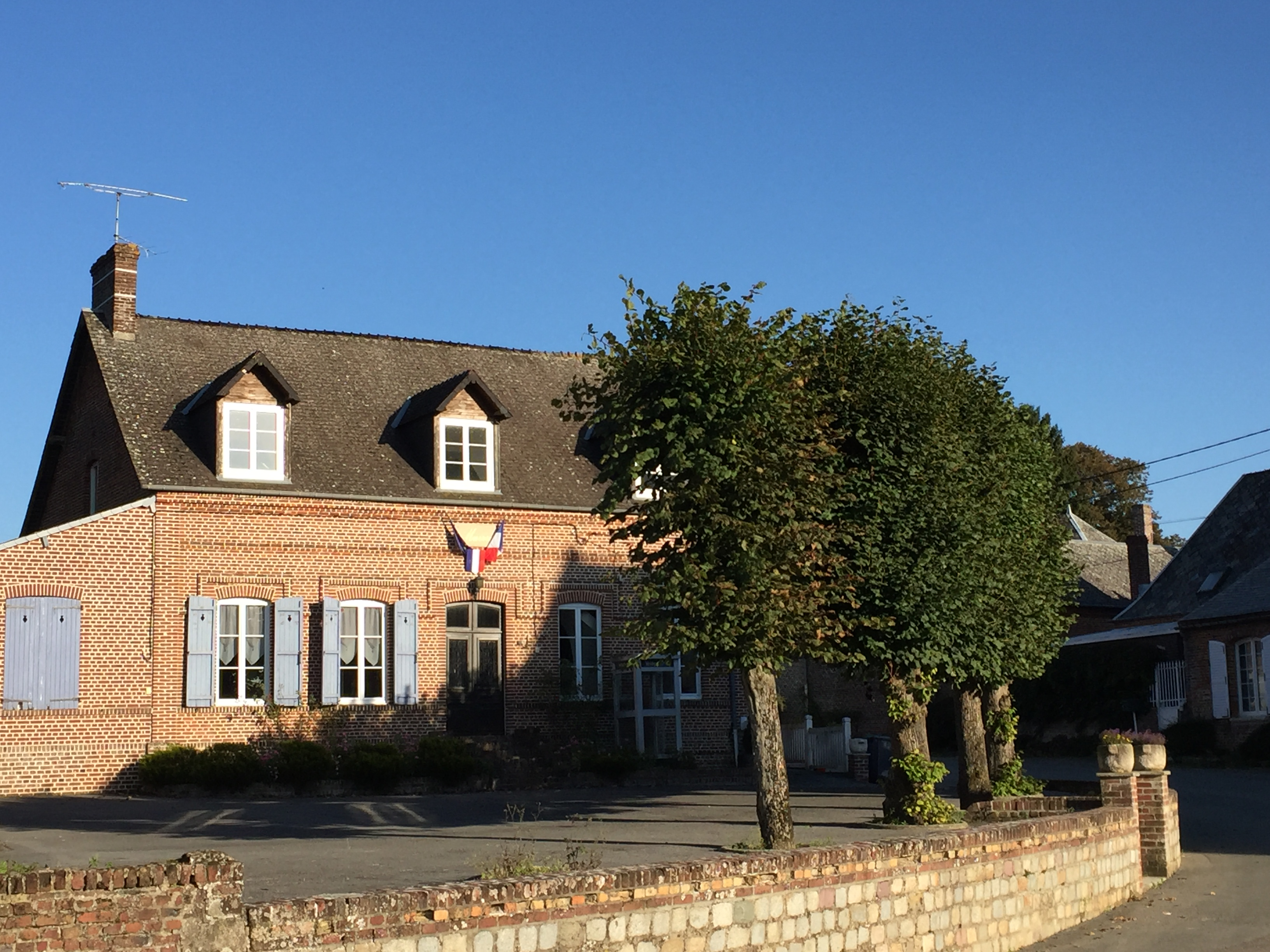 Berlancourt (Aisne) mairie